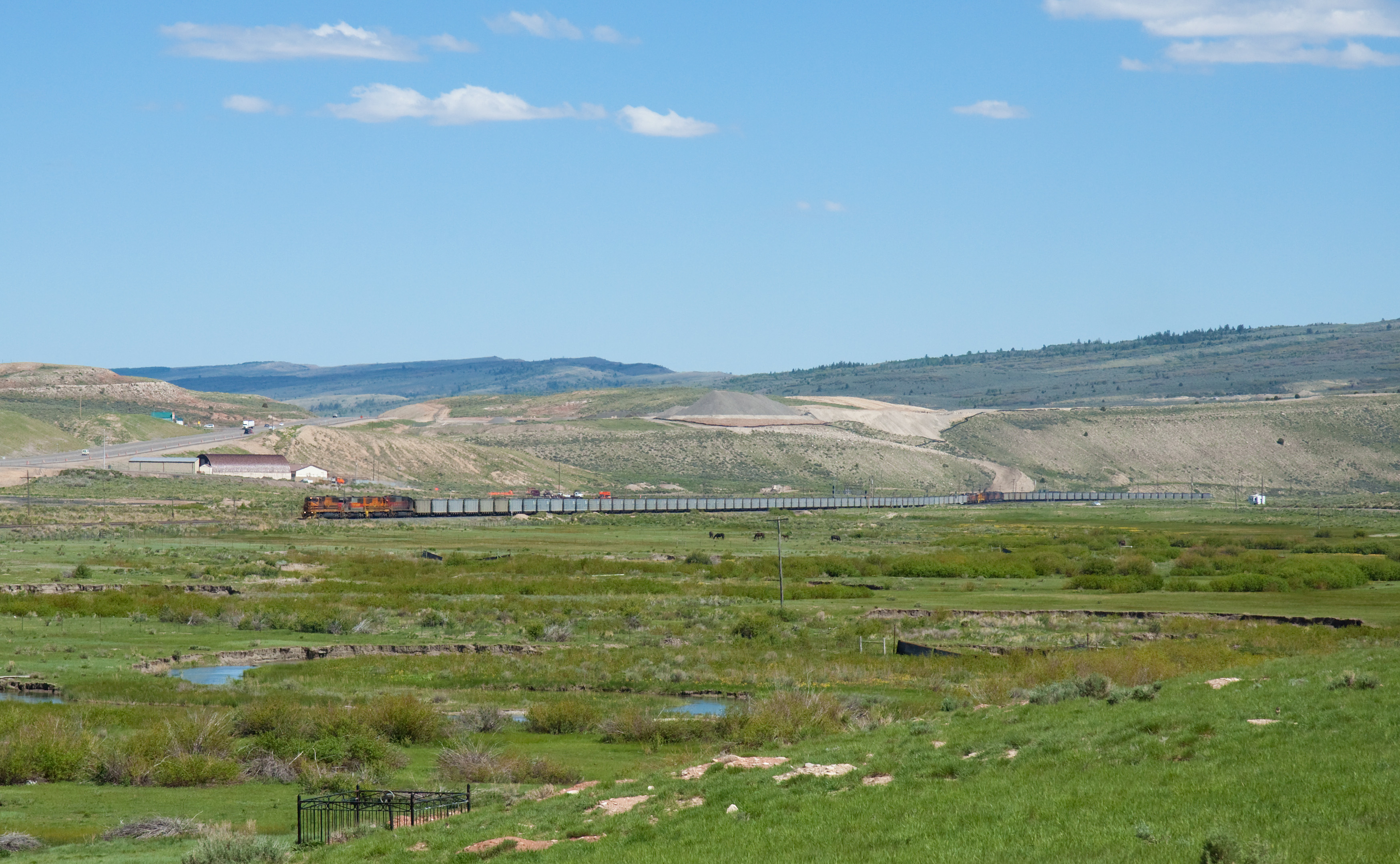 The train has reached the summit, and has now stopped to remove the mid-helpers. Soldier Summit, Utah.